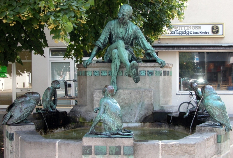 Brunswick, Germany: Close-up of Till Eulenspiegel-Fountain.